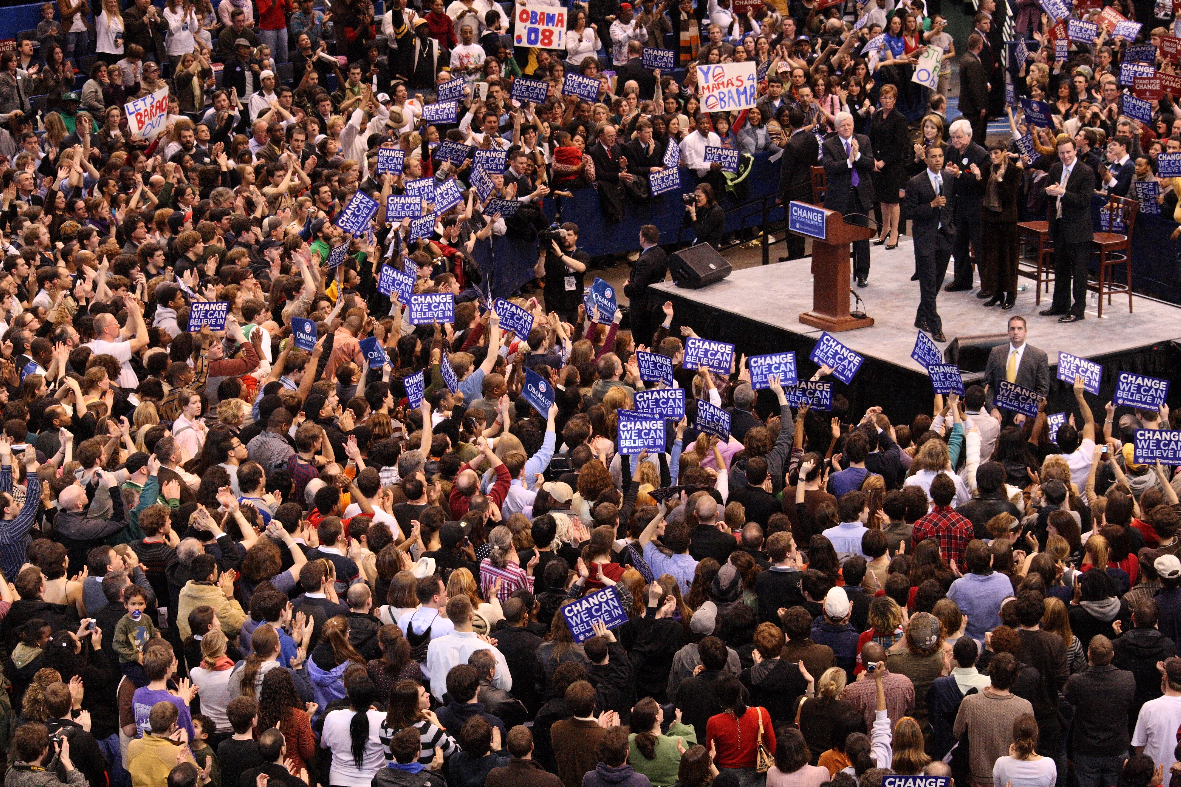 Senator Barack Obama, speaking at a rally for his presidential campaign in Hartford, Connecticut. Congressional Representatives Rosa DeLauro, Chris Murphy and John B. Larson are onstage behind Mr. Obama, along with Caroline Kennedy and Massachusetts Senator Ted Kennedy.